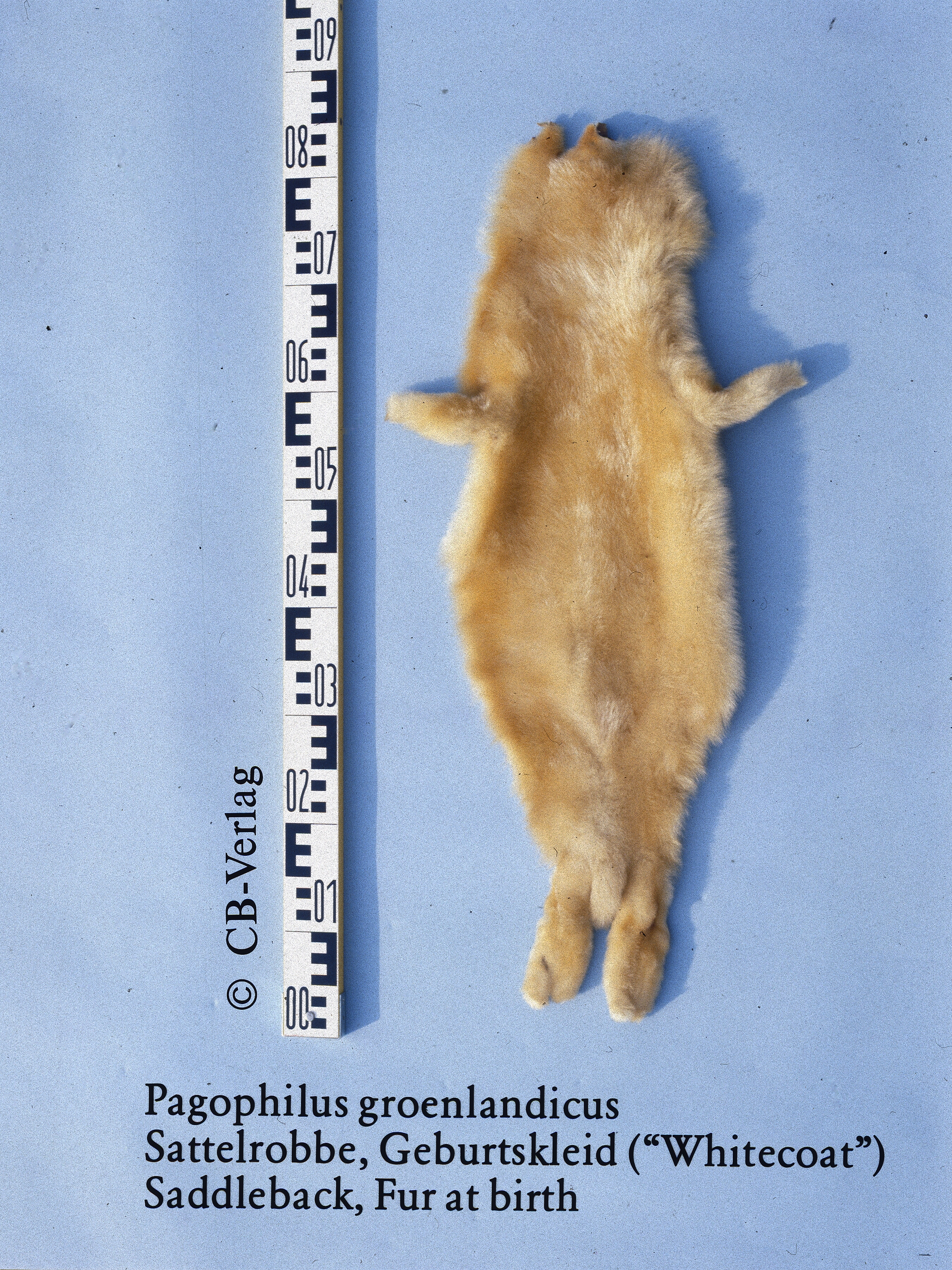 Saddleback, fur at birth, fur skin (Pagophilus groenlandicus). Fur skin collection, Bundes-Pelzfachschule, Frankfurt/Main, Germany.